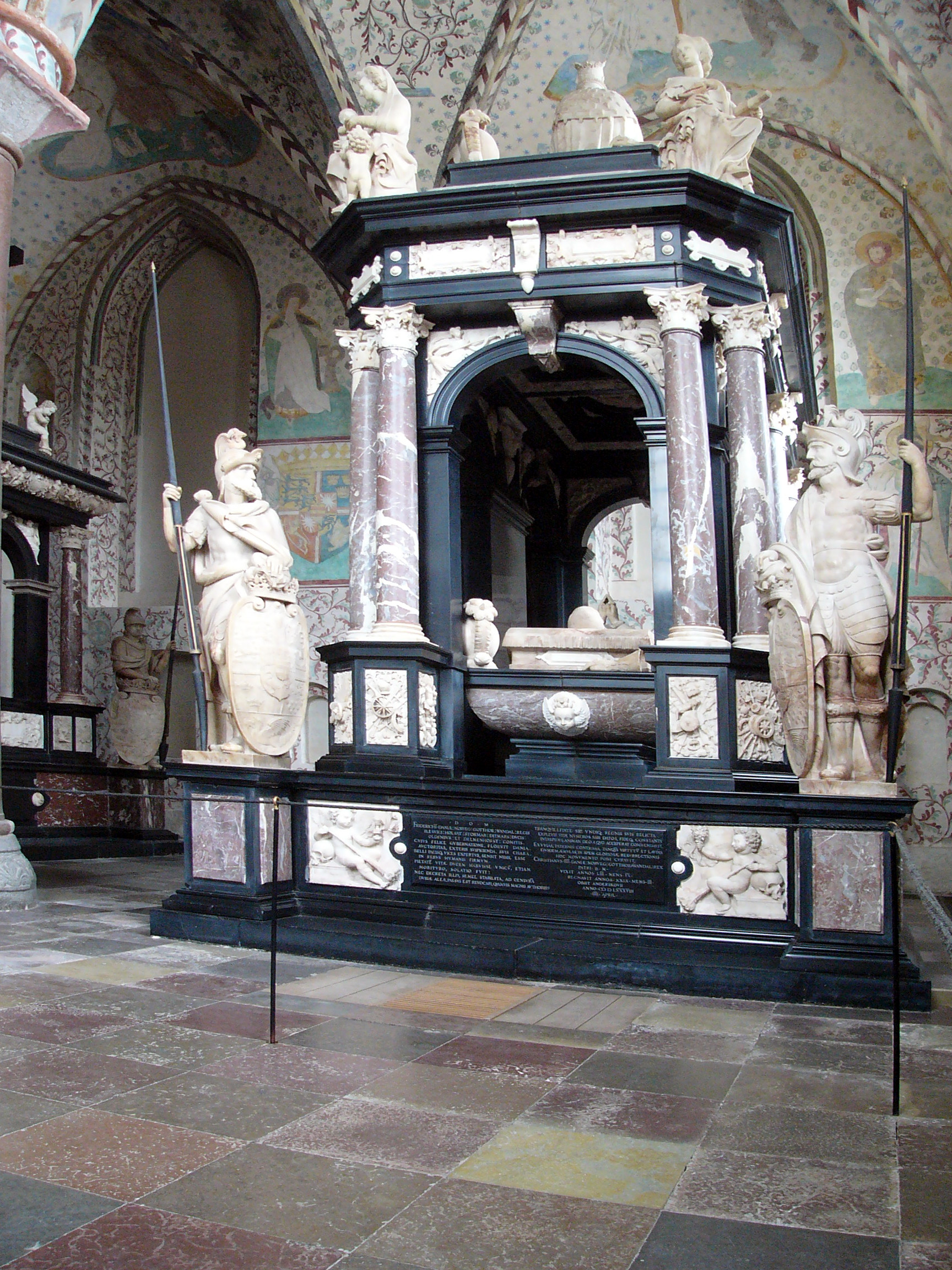 Sepulchre of Frederik II of Denmark by Flemish artist Gert van Egen from 1598. Christian IIIs sepulchure can be seen to the left in the picture.